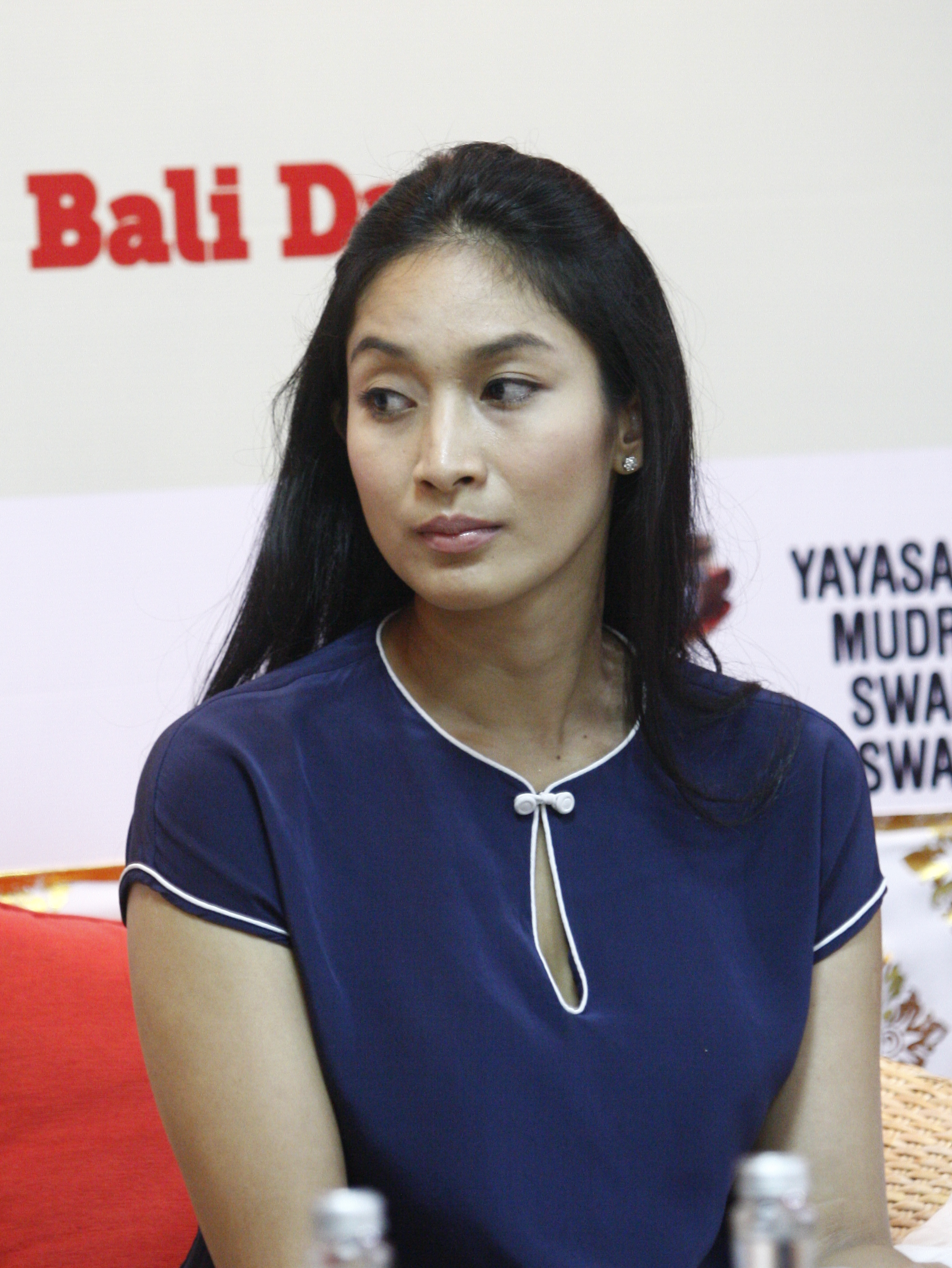 Ubud Writers & Readers Festival 2012. Image credit Stanny Angga.